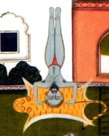 Illustration of Kapala Asana (headstand) from manuscript of Joga Pradīpikā, 1830.